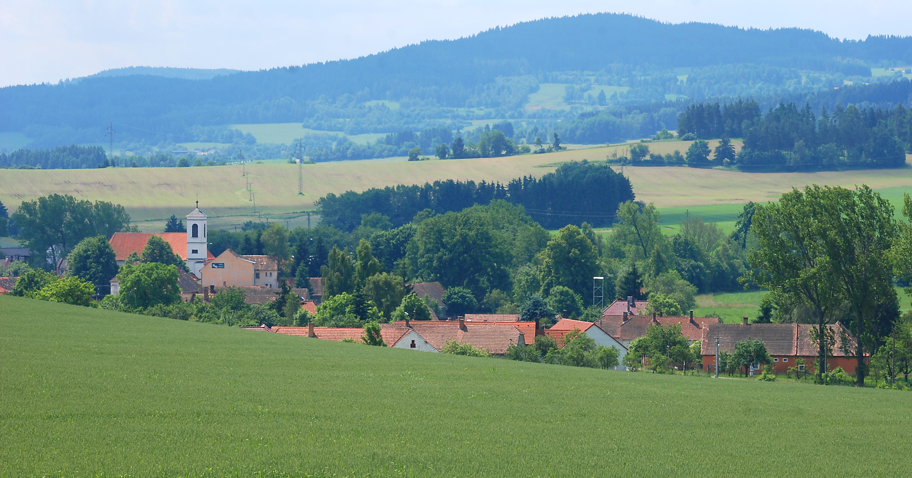 village of Predslavice, South Bohemia, Czech republic